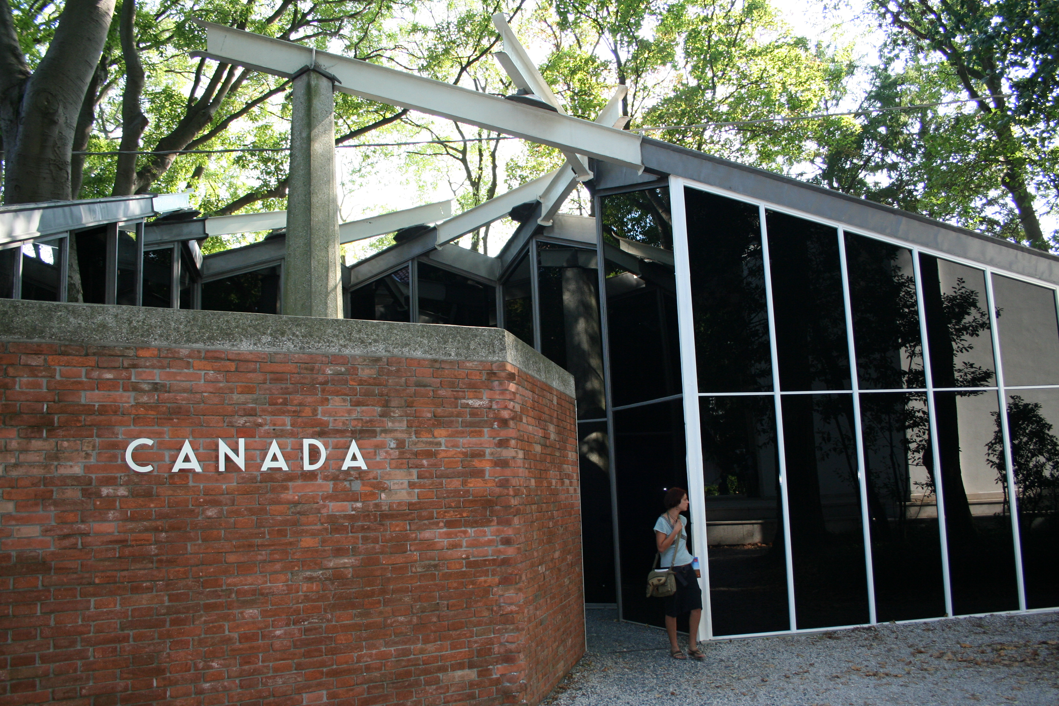 Canadian pavilion Biennale Giardini 2009